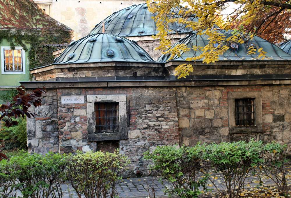 Király Baths in Budapest, 2nd distr., Ganz Street